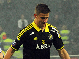 Eero Markkanen, AIK